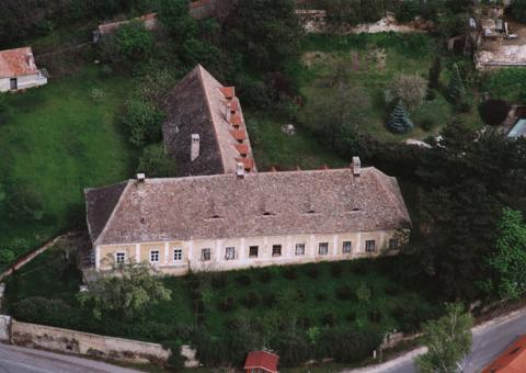 Csabrendek, Hungary, aerial photography